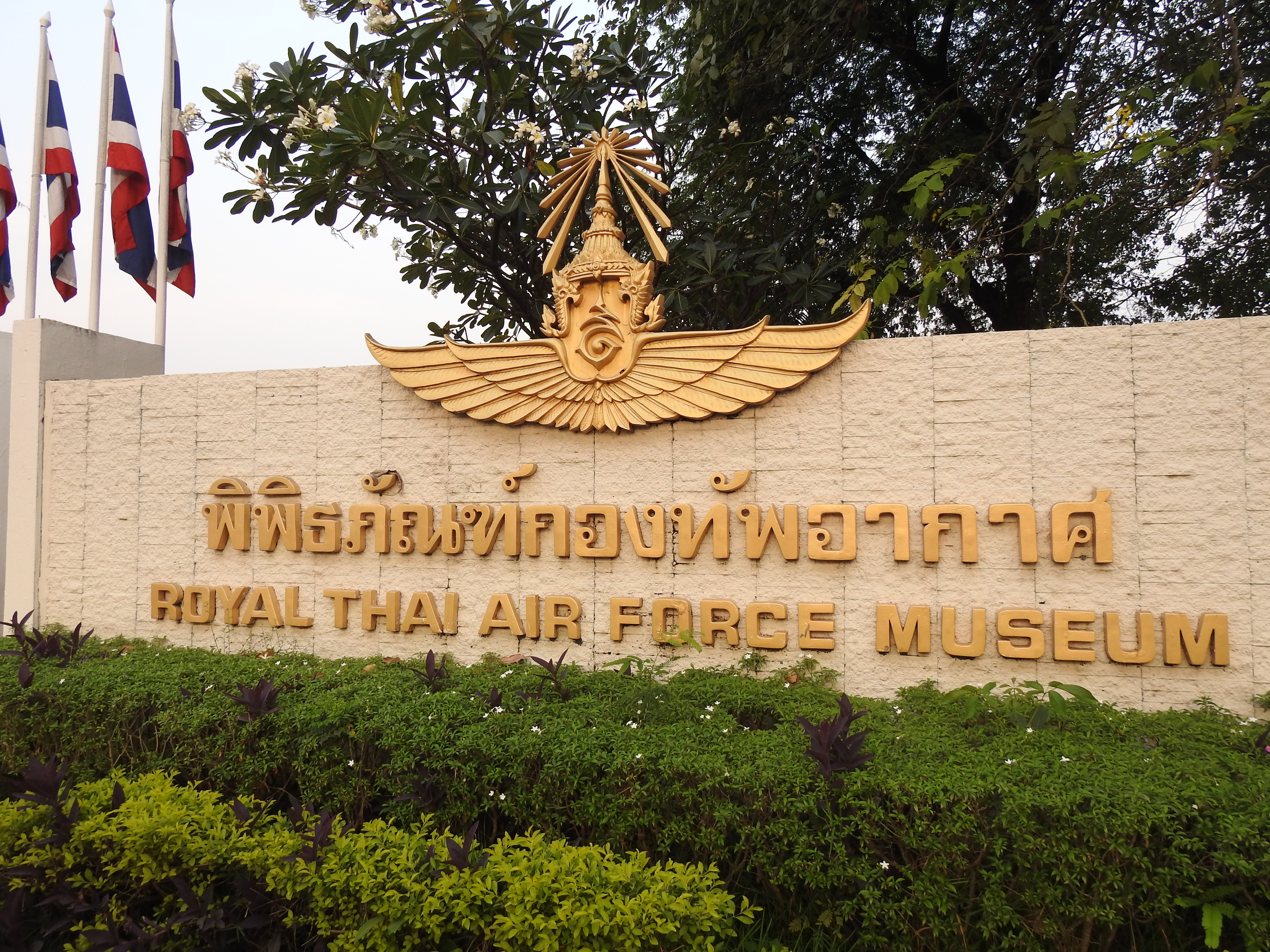 The museum of the Royal Thai Air Force was established in 1952 to collect and preserve the aircraft, ordnance, communication devices that were used in the Air Force, Including pilot’s appliance, uniform, documents and other important materials related to aviation to exhibit for general public.